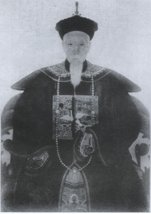 Pan Zengying, scholar of the Qing Dynasty.